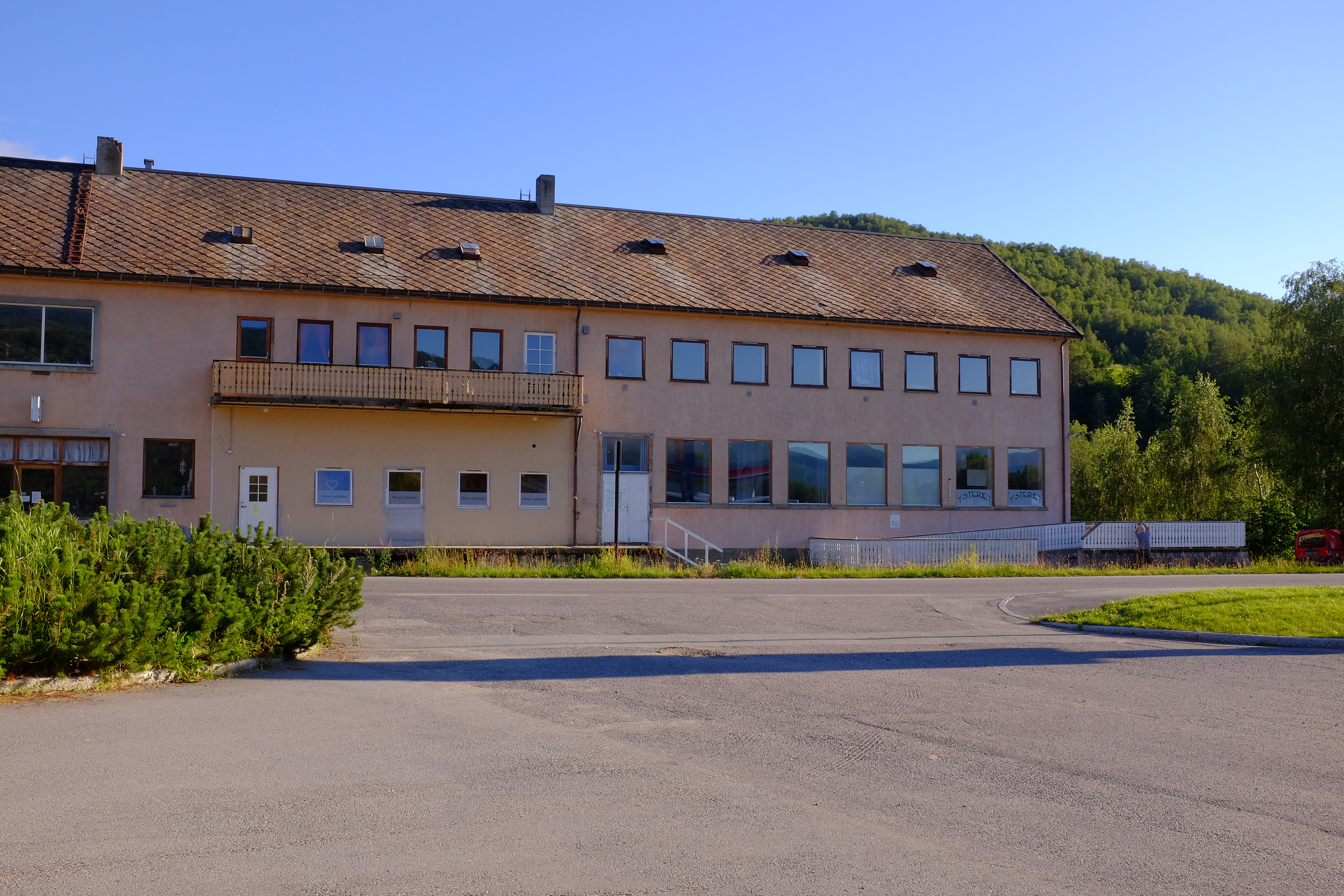 The former cheese factory in Misvær where the misværosten was developed.